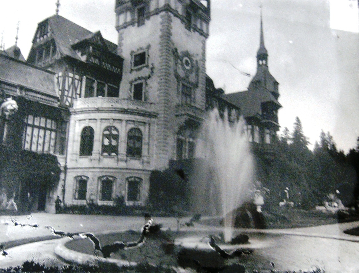 Fountain in the palace of the Romanian King, Carol I of Romania, in Sinaia. 1907 This media file is produced by Wikipedian in Residence in Category:Wikipedian in Residence at DARM in 2016.